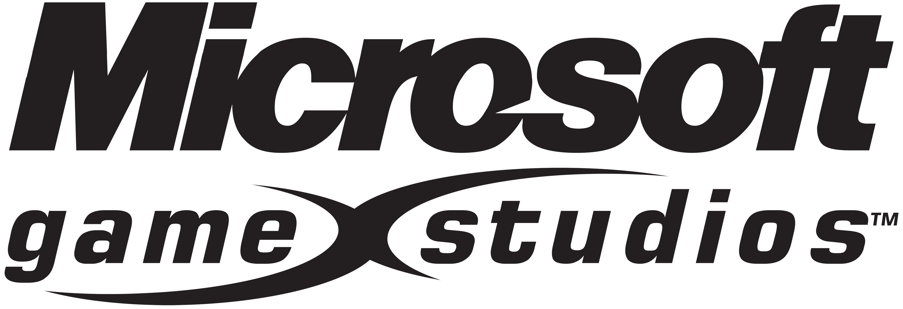 Microsoft game studios logo